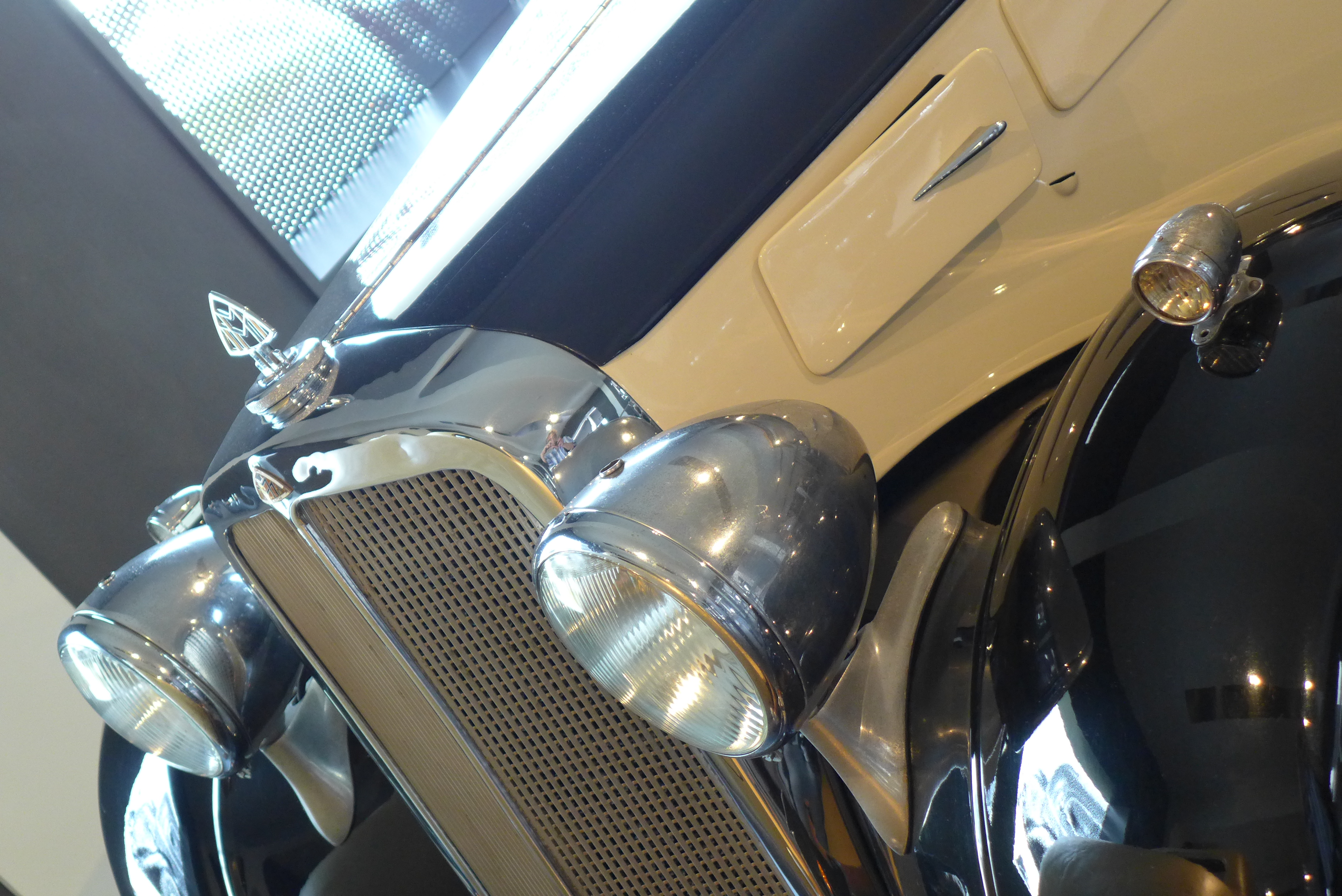 Detail of a 1935 Maybach SW 35 first owned by Eduard Seiler, Würzburg, on display at the Museum for Historical Maybach Vehicles, Neumarkt in der Oberpfalz, Bavaria, Germany.